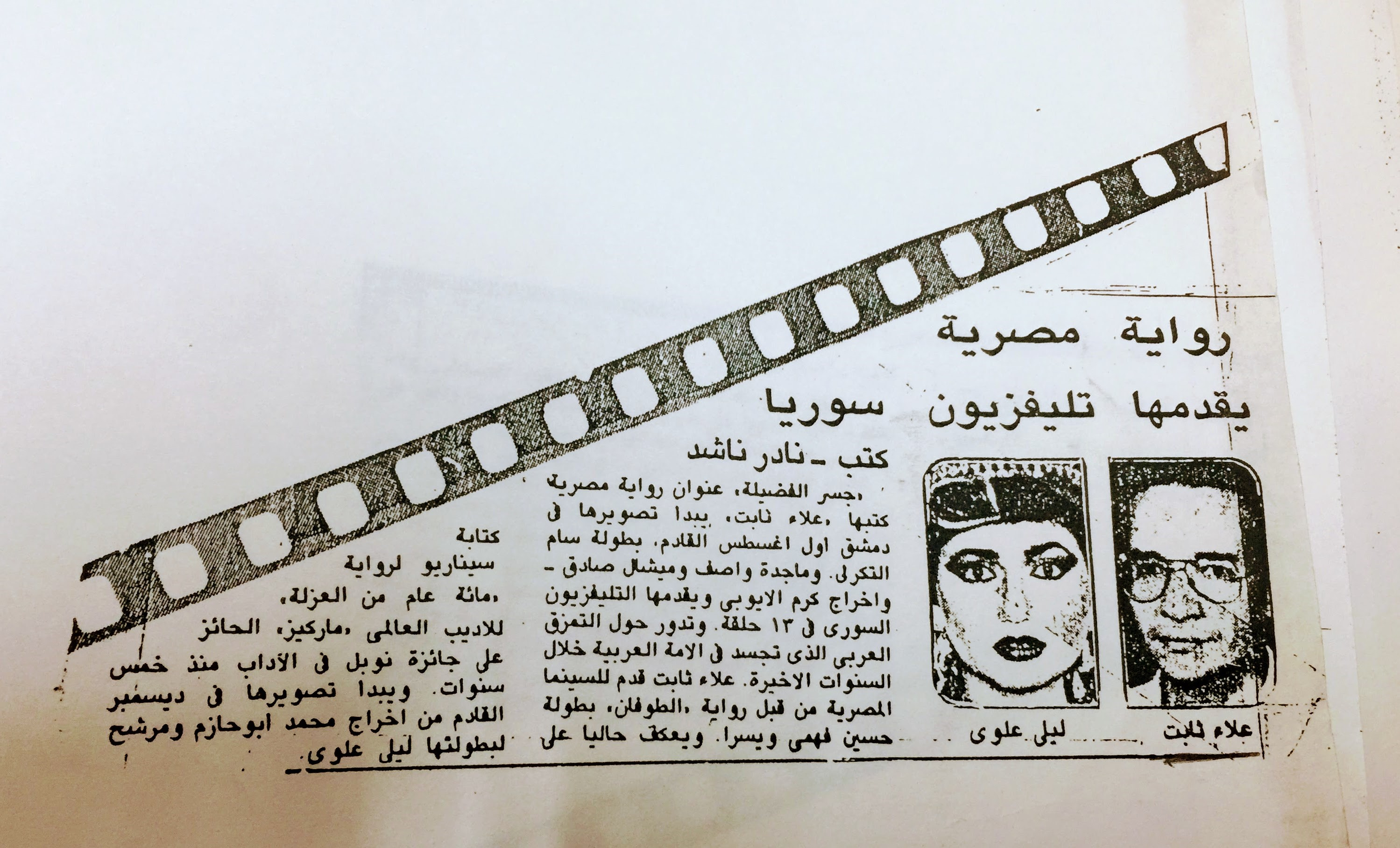 The novel "Bridge of Virtue" by Alaa Thabet